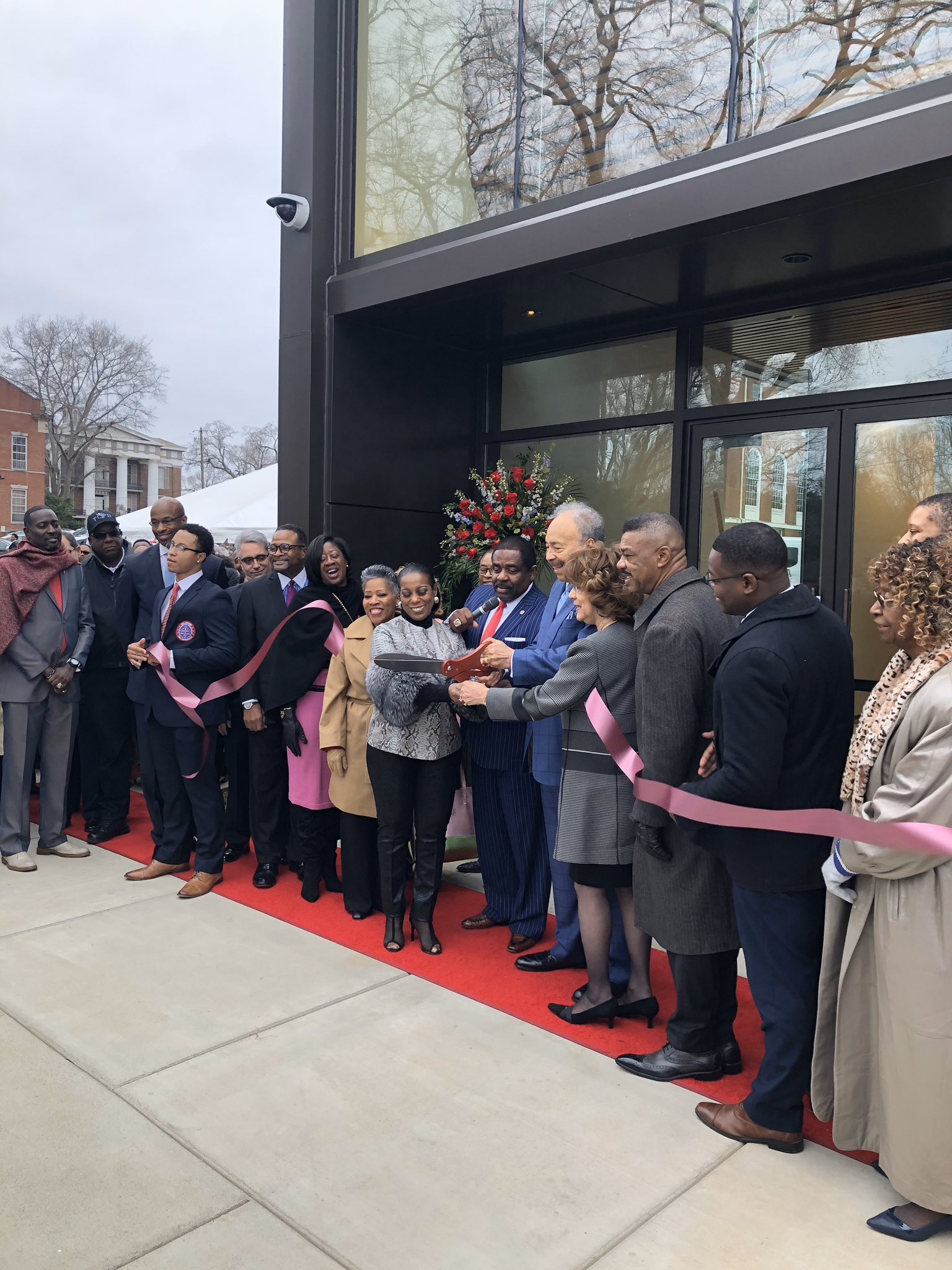 What an exciting ribbon cutting last week for Talladega College - Dr. William R. Harvey Museum of Art! #AL03